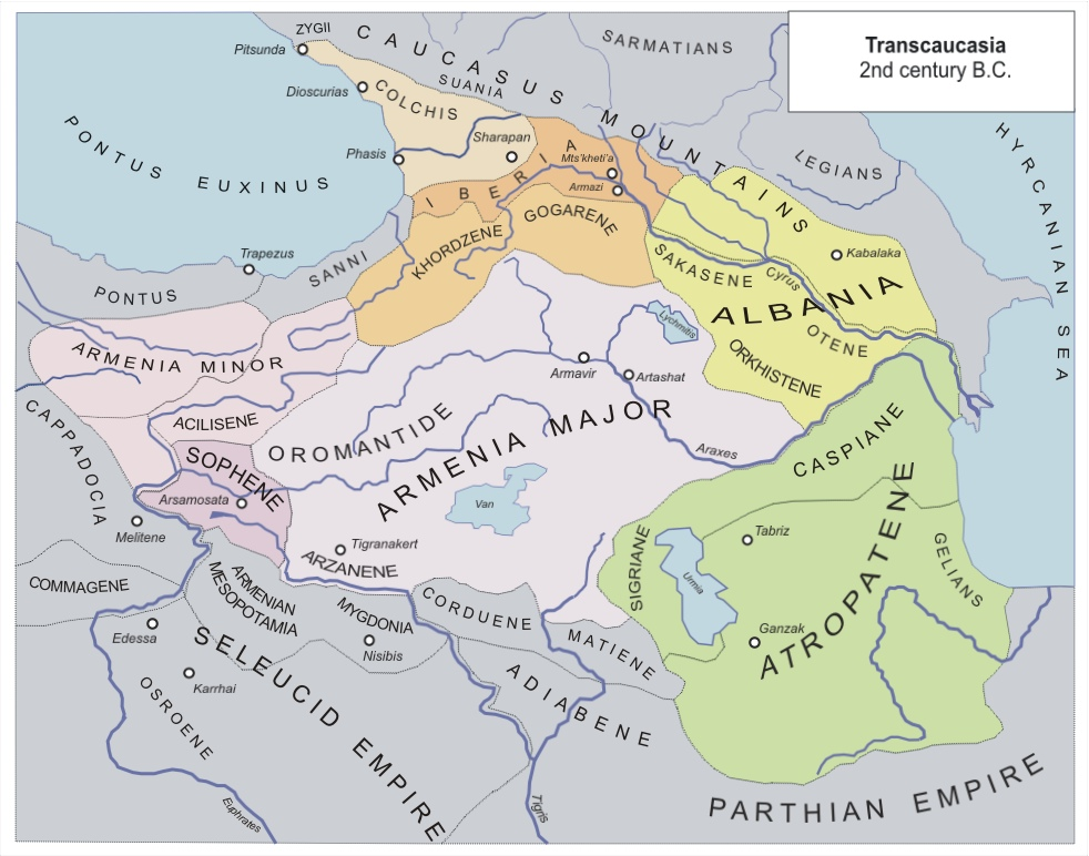 Transcaucasia, II century B.C.